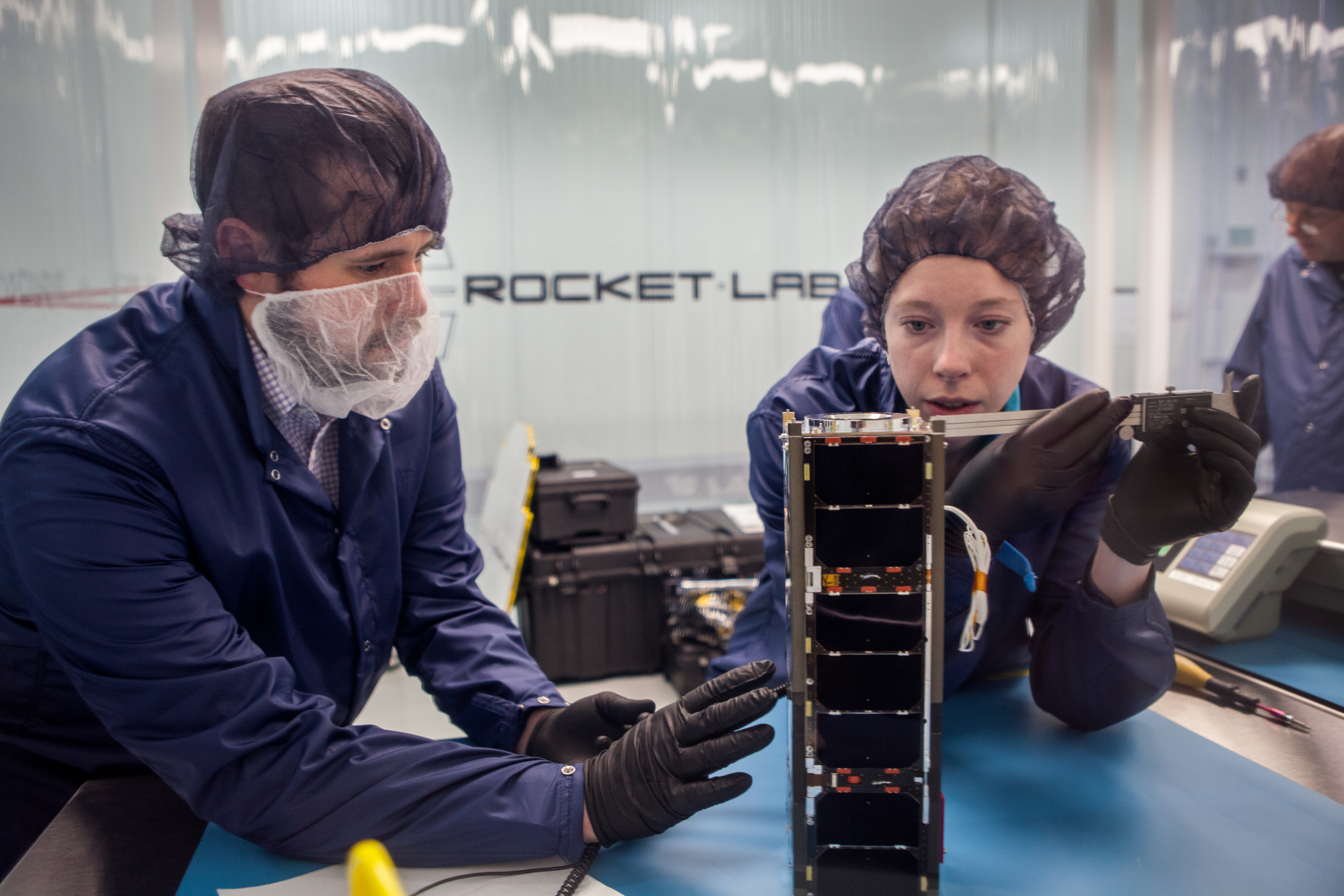 A host of CubeSats, or small satellites, are undergoing the final stages of processing at Rocket Lab USAâs facility in Huntington Beach, California, for NASAâs first mission dedicated solely to spacecraft of their size. This will be the first launch under the agencyâs new Venture Class Launch Services. Scientists, including those from NASA and various universities, began arriving at the facility in early April with spacecraft small enough to be a carry-on to be prepared for launch. A team from NASAâs Goddard Spaceflight Center in Greenbelt, Maryland, completed final checkouts of a CubeSat called the Compact Radiation Belt Explorer (CeREs), before placing the satellite into a dispenser to hold the spacecraft during launch inside the payload fairing. Among its missions, the satellite will examine the radiation belt and how electrons are energized and lost, particularly during events called microbursts â when sudden swarms of electrons stream into the atmosphere. This facility is the final stop for designers and builders of the CubeSats, but the journey will continue for the spacecraft. Rocket Lab will soon ship the satellites to New Zealand for launch aboard the companyâs Electron orbital rocket on the Mahia Peninsula this summer. The CubeSats will be flown on an Educational Launch of Nanosatellites (ELaNa) mission to space through NASAâs CubeSat Launch Initiative. CeREs is one of the 10 ELaNa CubeSats scheduled to be a part of this mission. Photo credit: NASA NASA image use policy